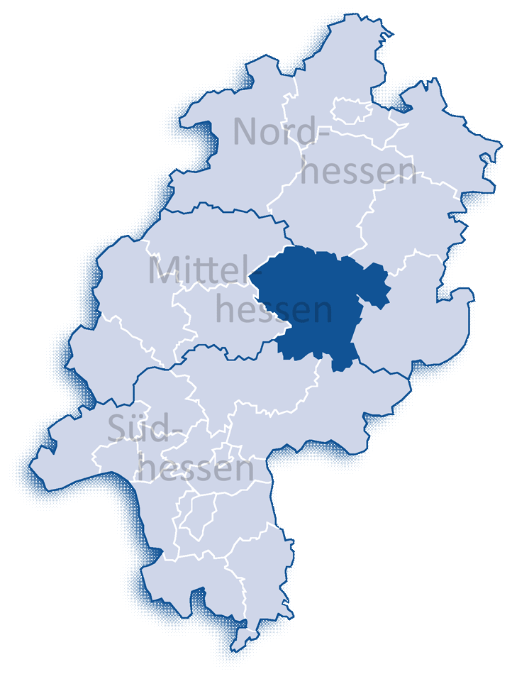 The map shows the district Vogelsbergkreis. A district in Hesse